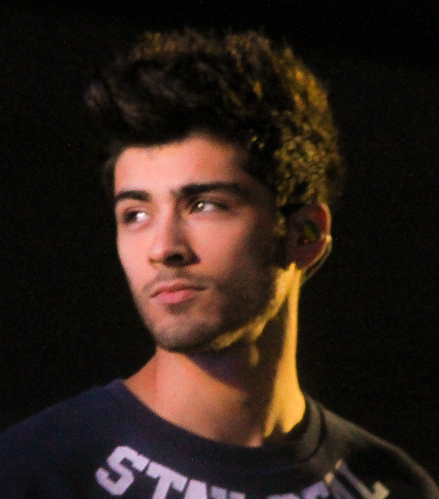 Zayn Malik performing in Chile during One Direction's 'Where We Are' tour.